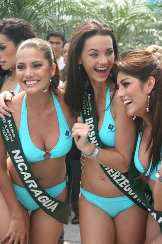 Miss Earth 2008 Press Presentation: Thelma Rodríguez from Nicaragua and Alisa Zlatarevic from Bosnia and Herzegovina